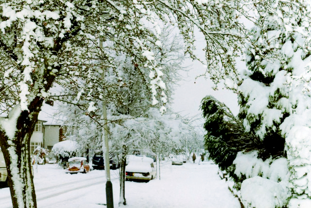 Ferncroft Avenue in the snow This was a period of heavy snow in December 1981.